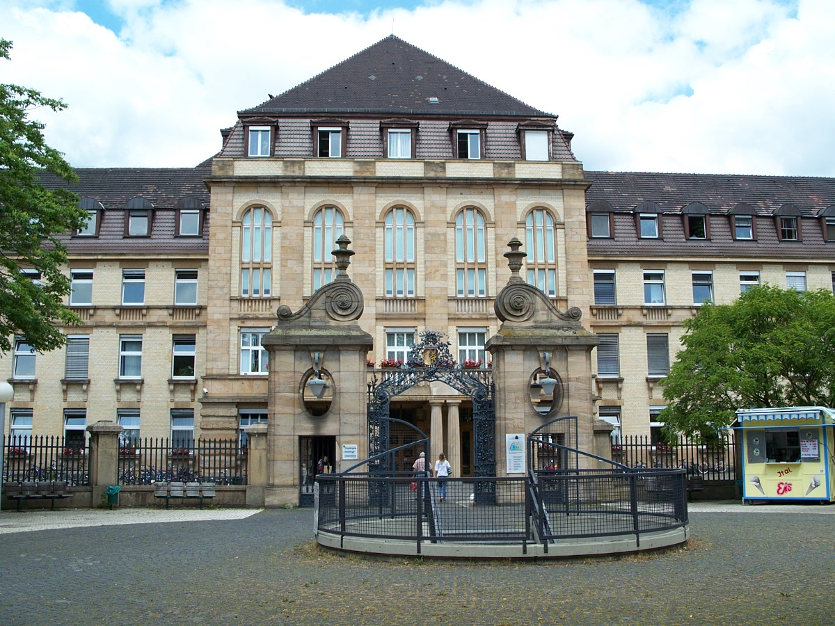 Entrance University Hospital Mannheim